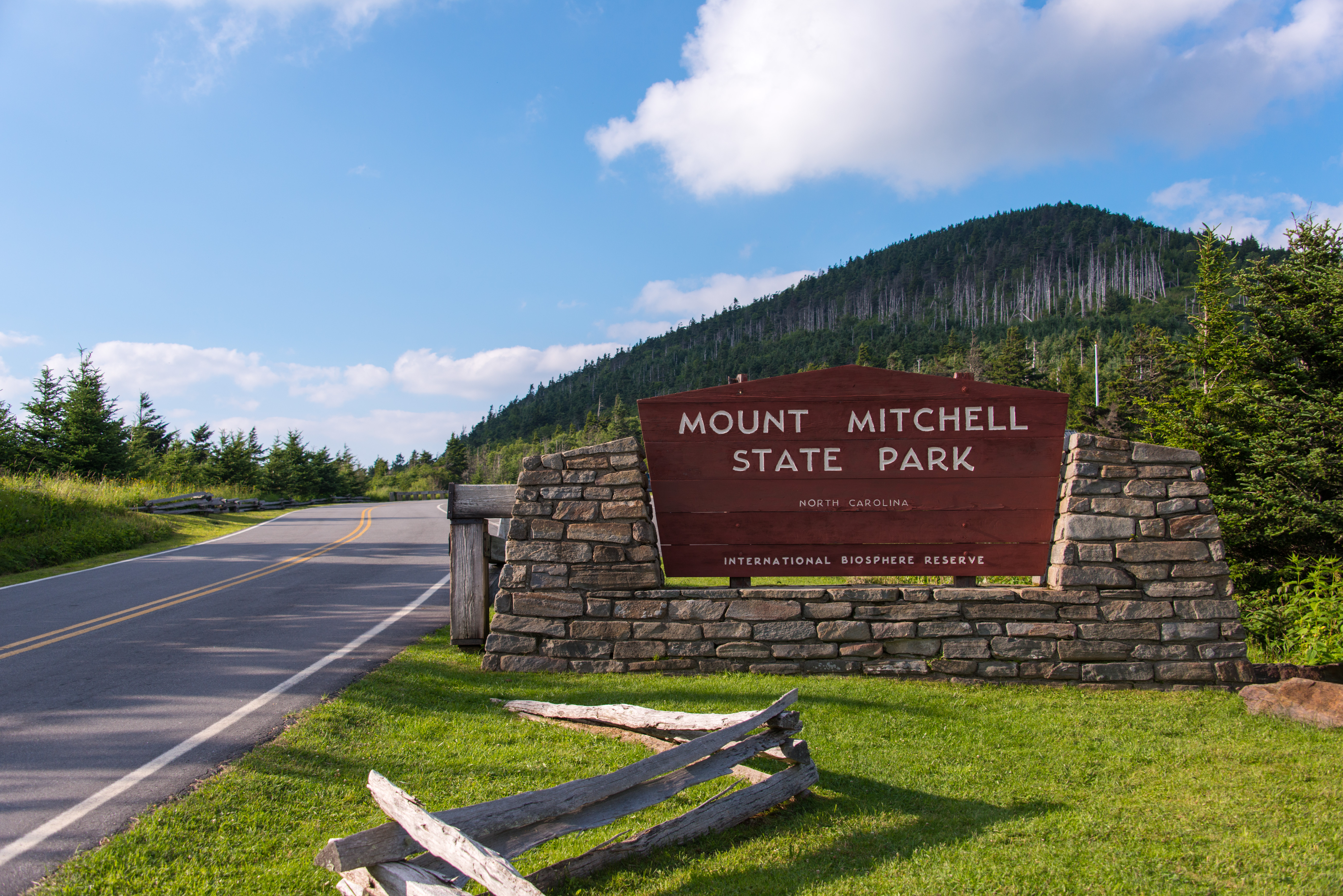 Entrance to Mount Mitchell State Park, along NC 128, in Yancey County, North Carolina.